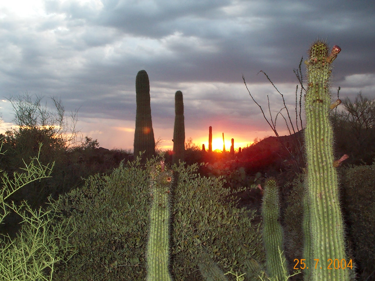 Saguaro at sunset, Sonora Desert Museum, Arizona